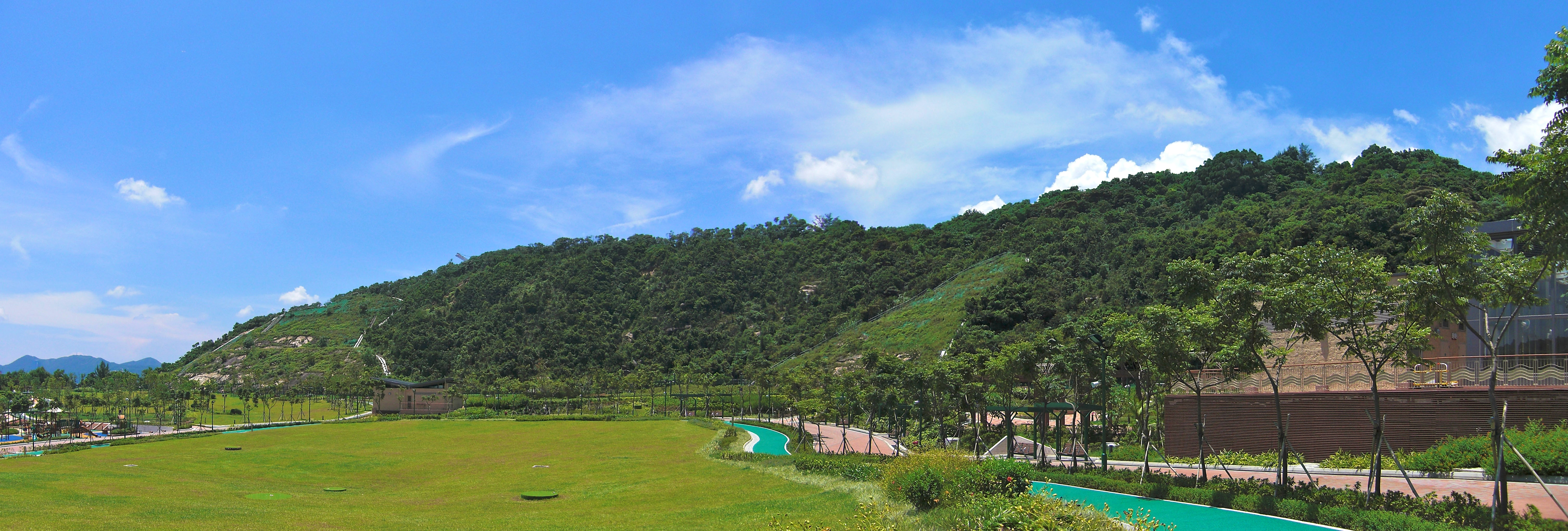 Looking towards the south from Jordan Valley Park, the eastern side of Ping Shan is seen.